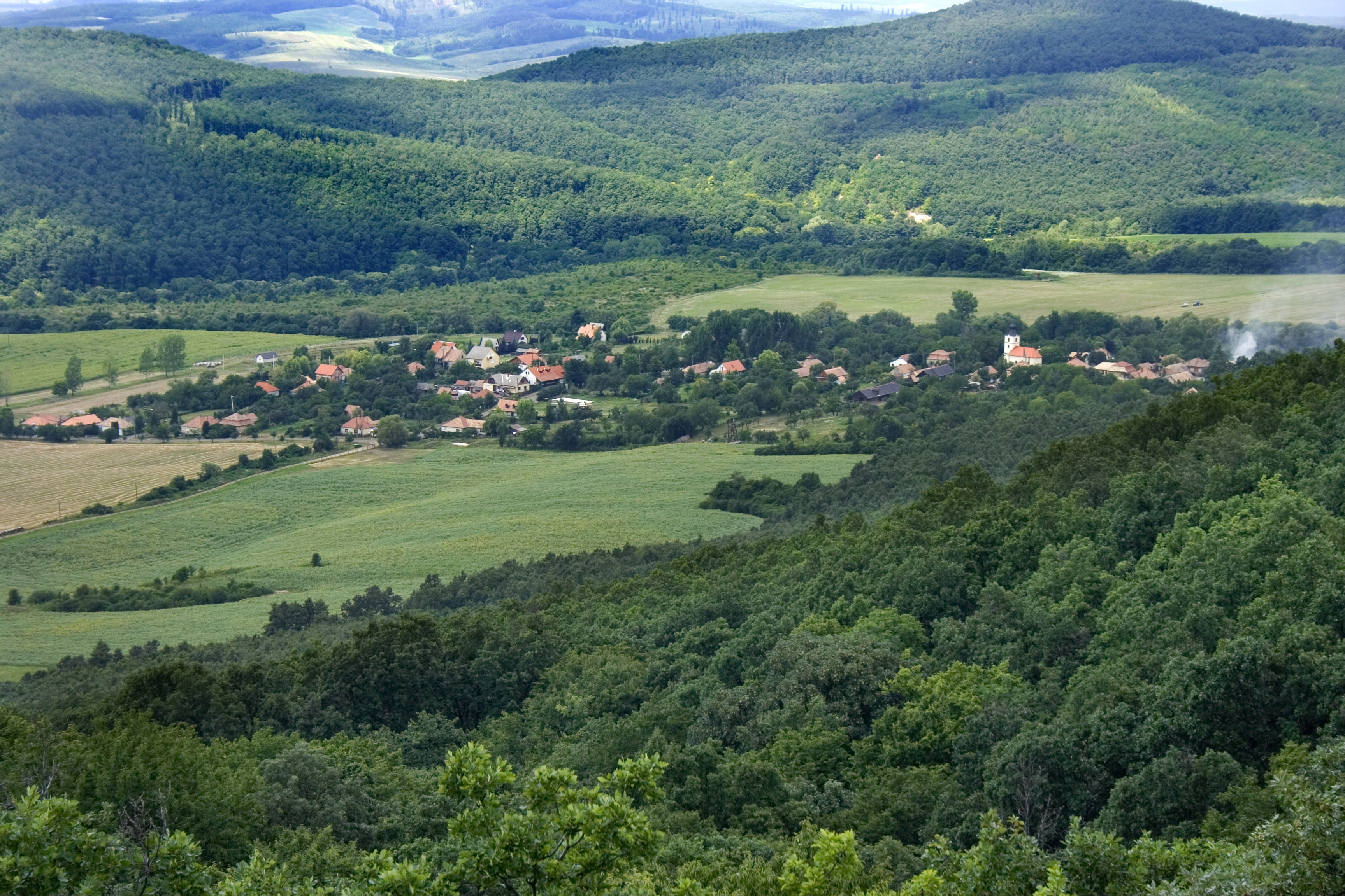 Panorama from Garáb village- Nógrád County- Hungary